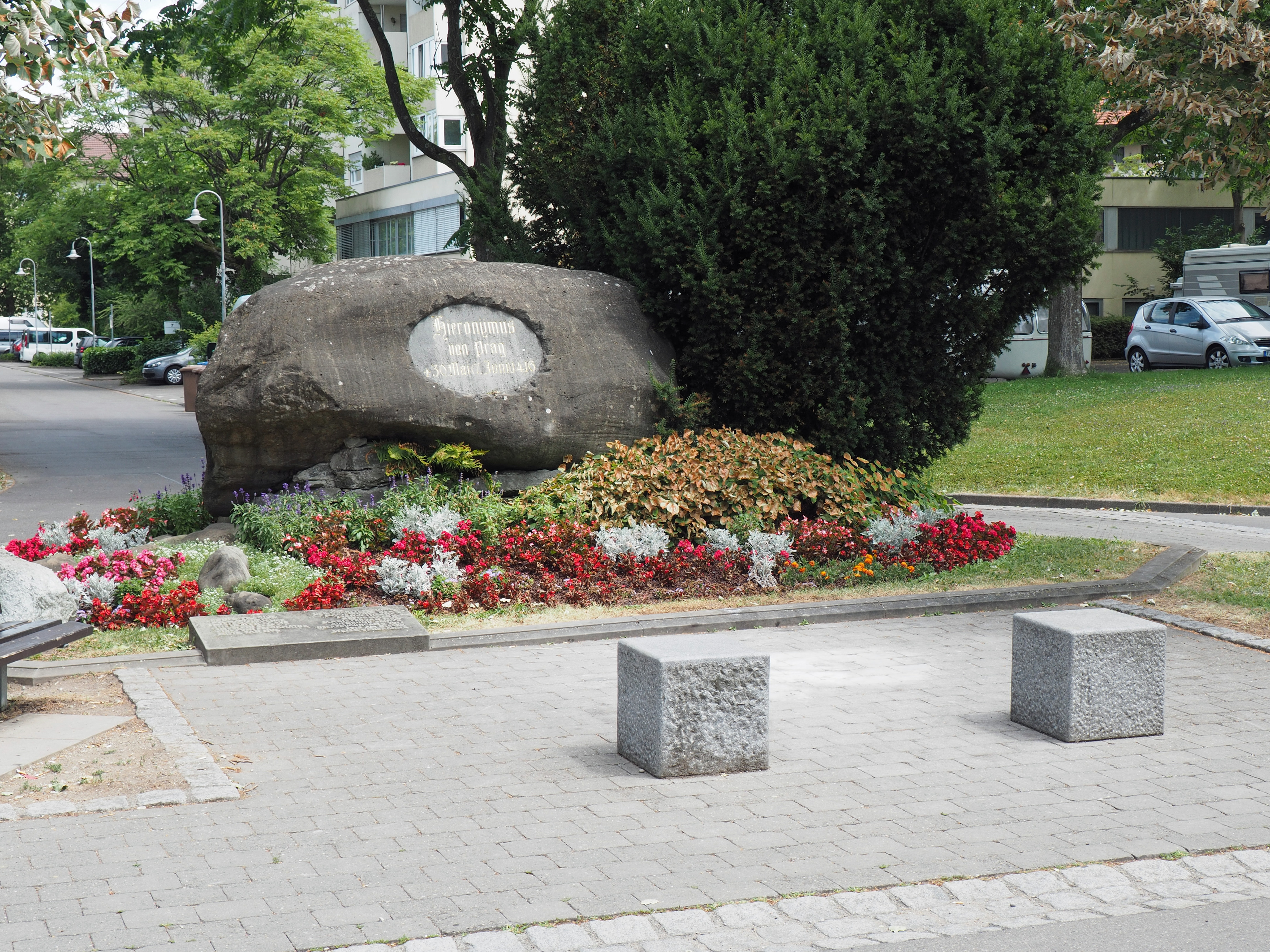 Hussenstein in Konstanz, plaque for Jerome of Prague. This erratic block with 35.000 kg weight marks the place where the Bohemian reformer Jan Hus (6 July 1415) and his a friend and fellow Jerome of Prague (30 May 1416) have been burned as heretic during the Council of Constance. The memorial stone from blackish limestone was funded by donations. It was inaugurated on October 6, 1862. Regularly on July 6, the Hussenstein is venue for the annual commemoration of Jan Hus and Jerome of Prague.